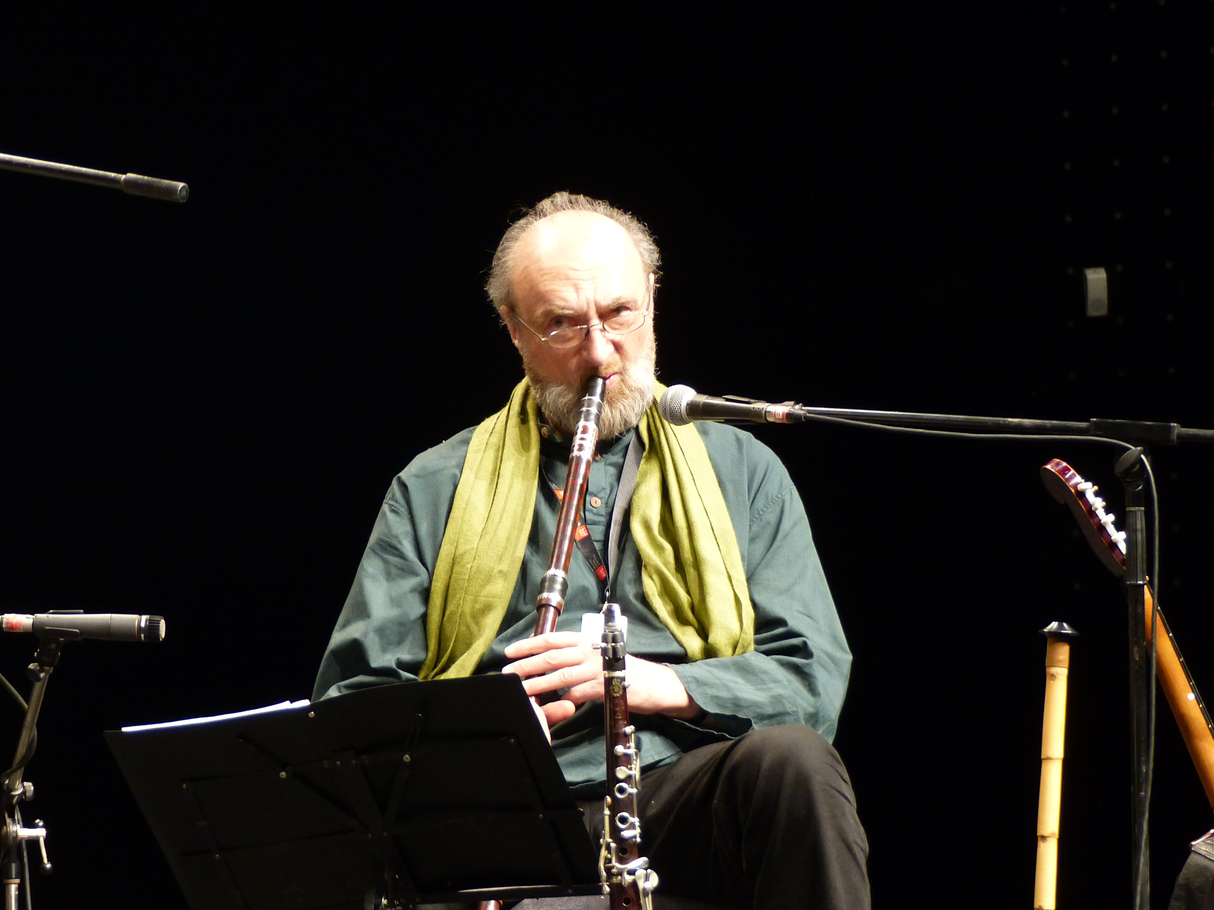 Barvich Iván. Pont Festival, 2017.04.02. Várkert Bazár, Budapest, Central Europe.